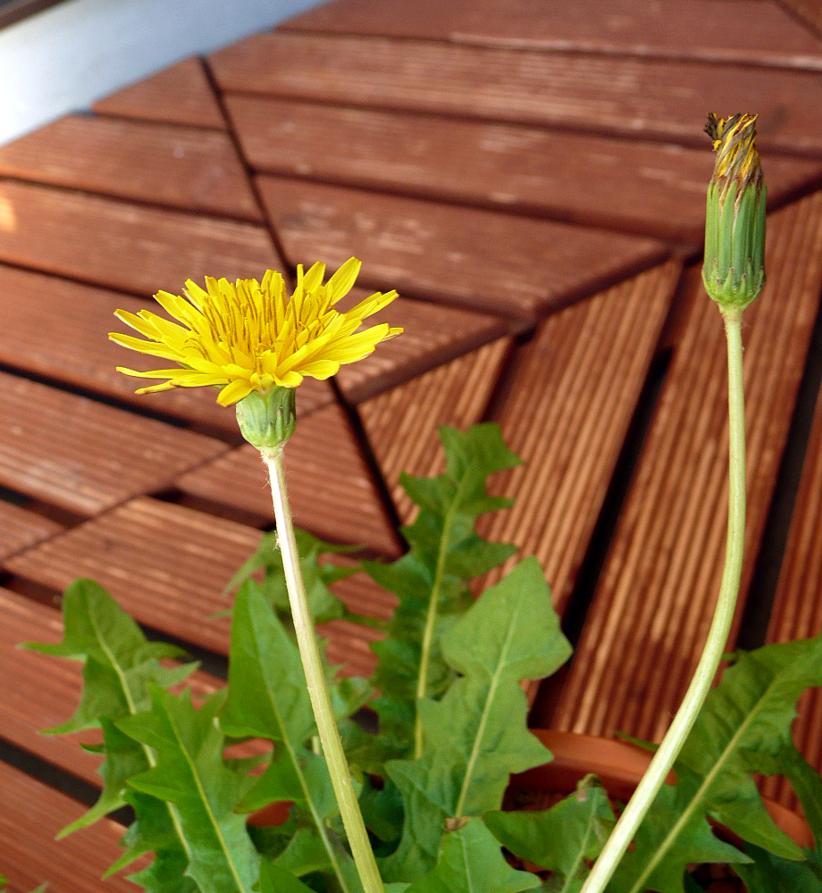 Taraxacum japonicum Koidz.(a kind of Japanese dandelions) Japanese name is "kansai tanpopo".("Tanpopo" means dandelion)